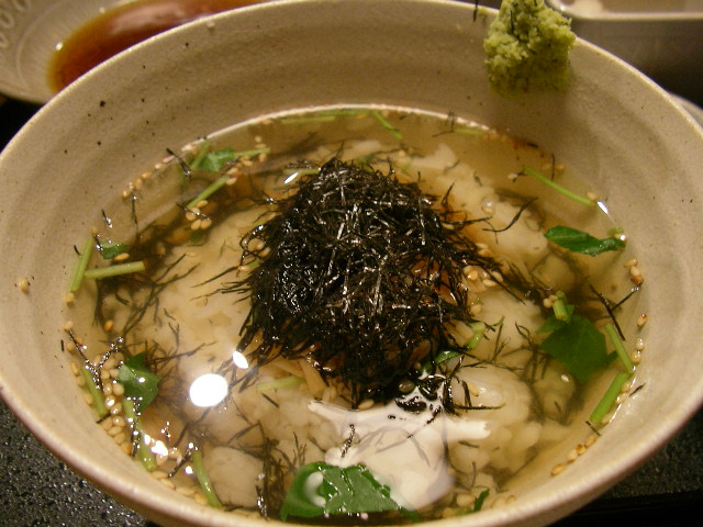 Ochazuke.